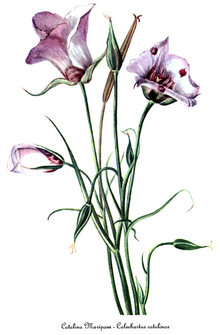 Watercolor painting of Calochortus_catalinae.